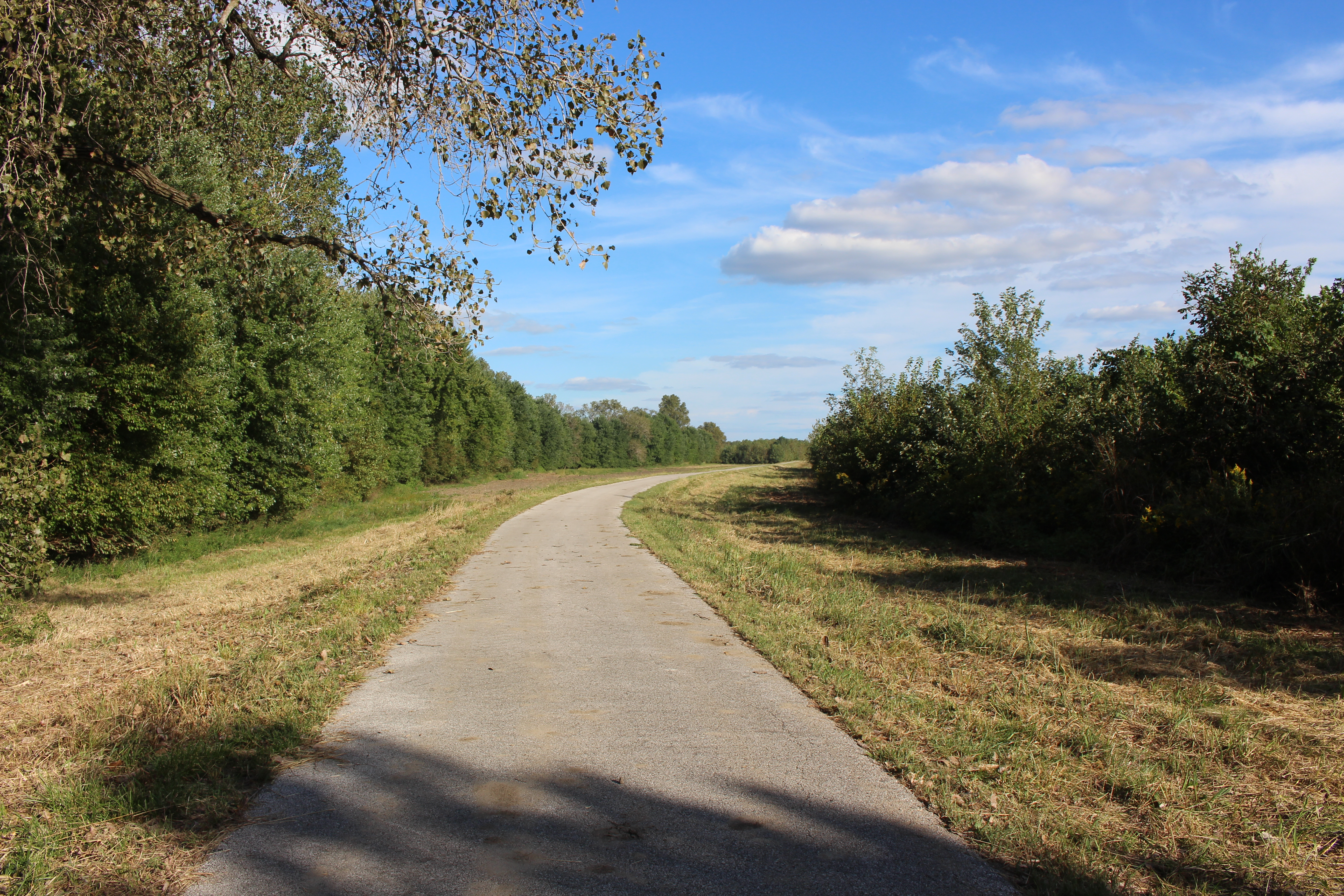 Photo of a trail at Columbia Bottom